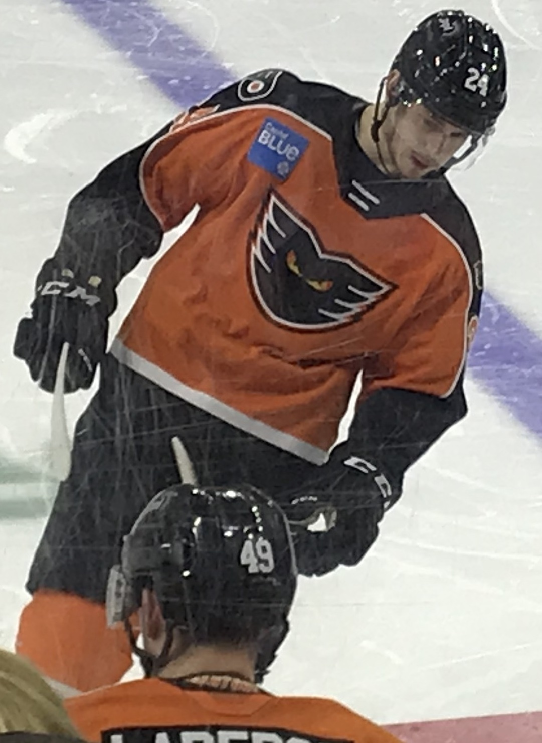 Mikhail Vorobyev, a defenseman with the Lehigh Valley Phantoms ice hockey team, at the PPL Center in Allentown, Pennsylvania, on January 15, 2020.